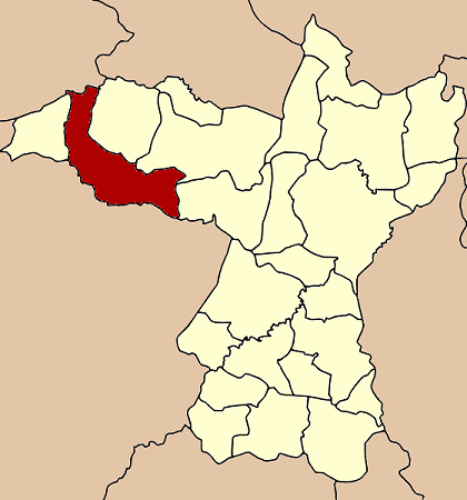 Map of Khon Kaen Province, Thailand, highlighting the district Chum Phae (อำเภอชุมแพ))